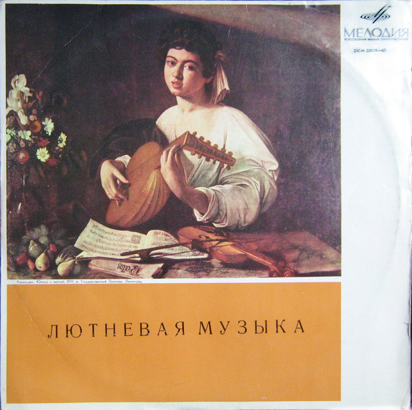 Обложка альбома "Лютневая Музыка". Изображена картина "Лютнист" Караваджо.